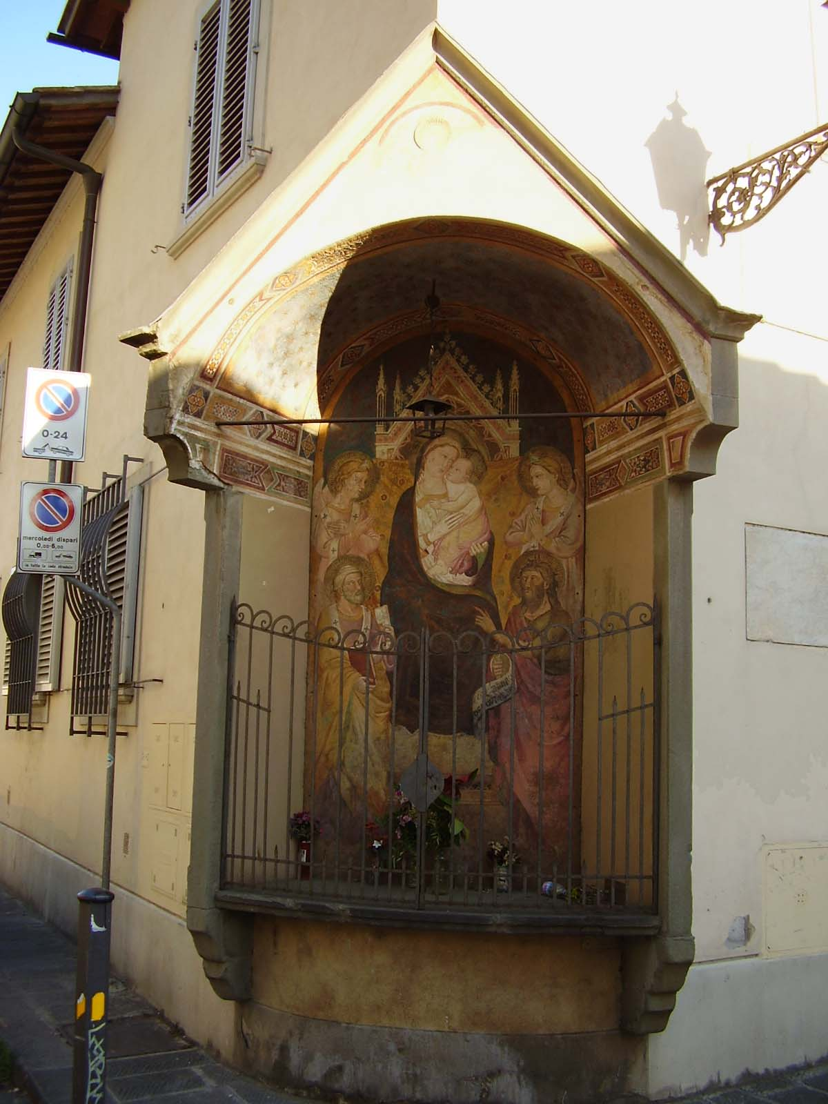 A gothic-style chapel at the corner between via San Giuseppe and via delle Casine, Florence.